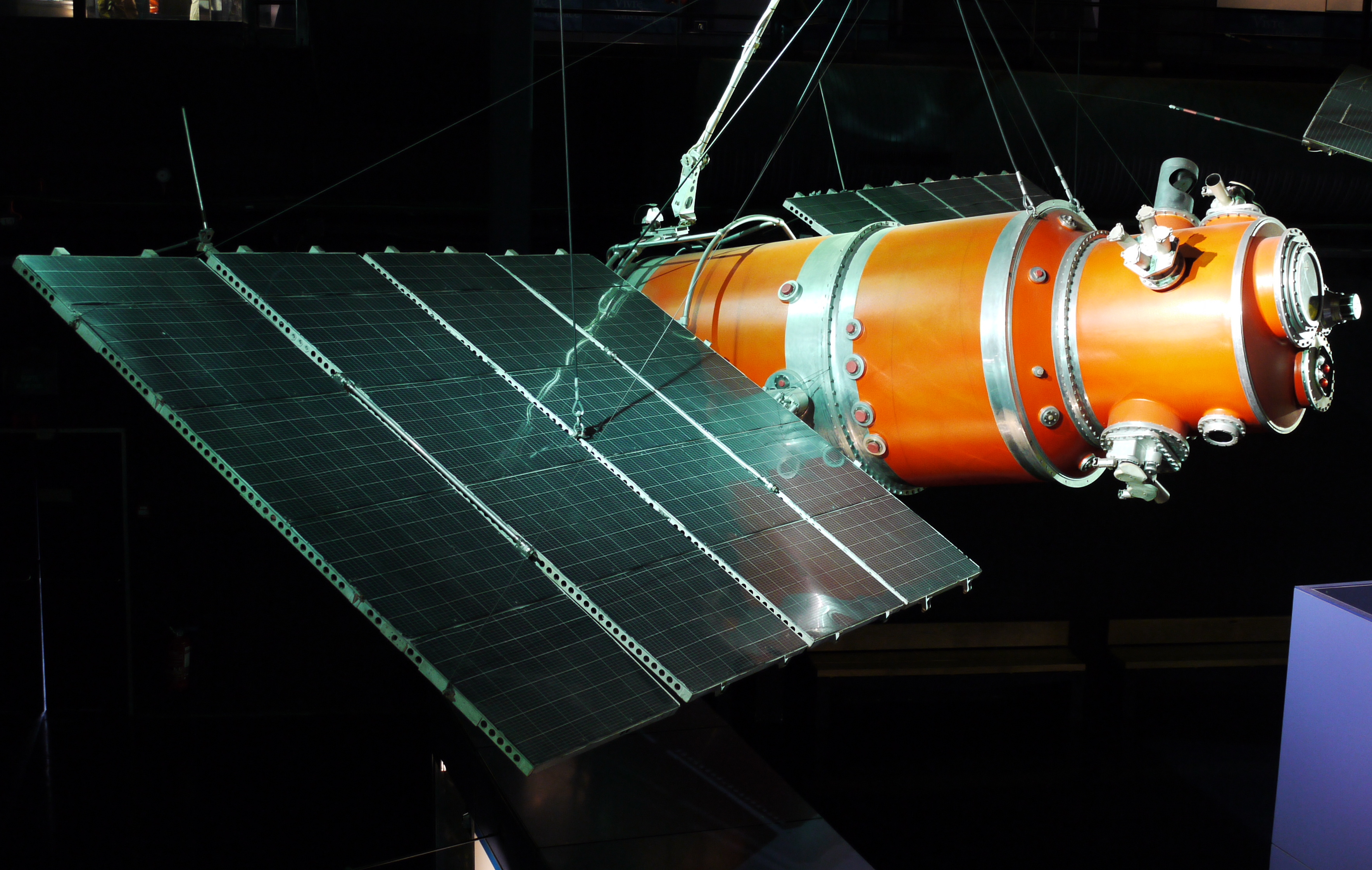 Mockup of the russian meteorological satellite Cosmos 122 (1966), Museum of Air and Space Paris, Le Bourget (France)